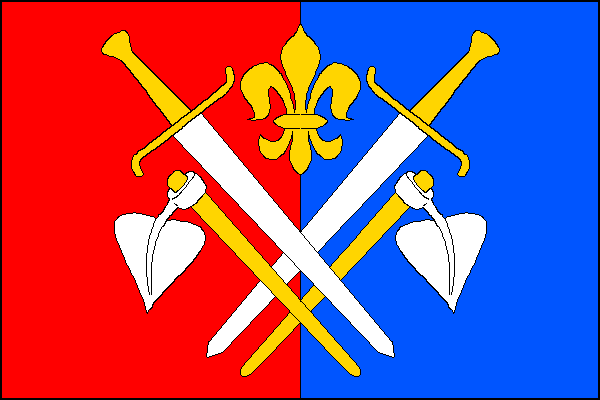 Municipal flag of Drahenice , District Příbram, Czech Republic